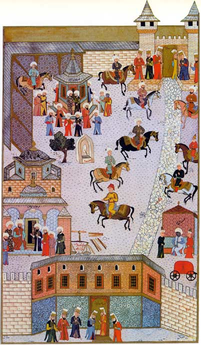 First Court of the Topkapi Palace. Ottoman miniature painting, from the Hünername, kept at the Topkapı Sarayı Müzesi, Istanbul (Inv. 1523/15b)